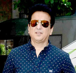 Sajid Nadiadwala grace the 'Phantom' media meet